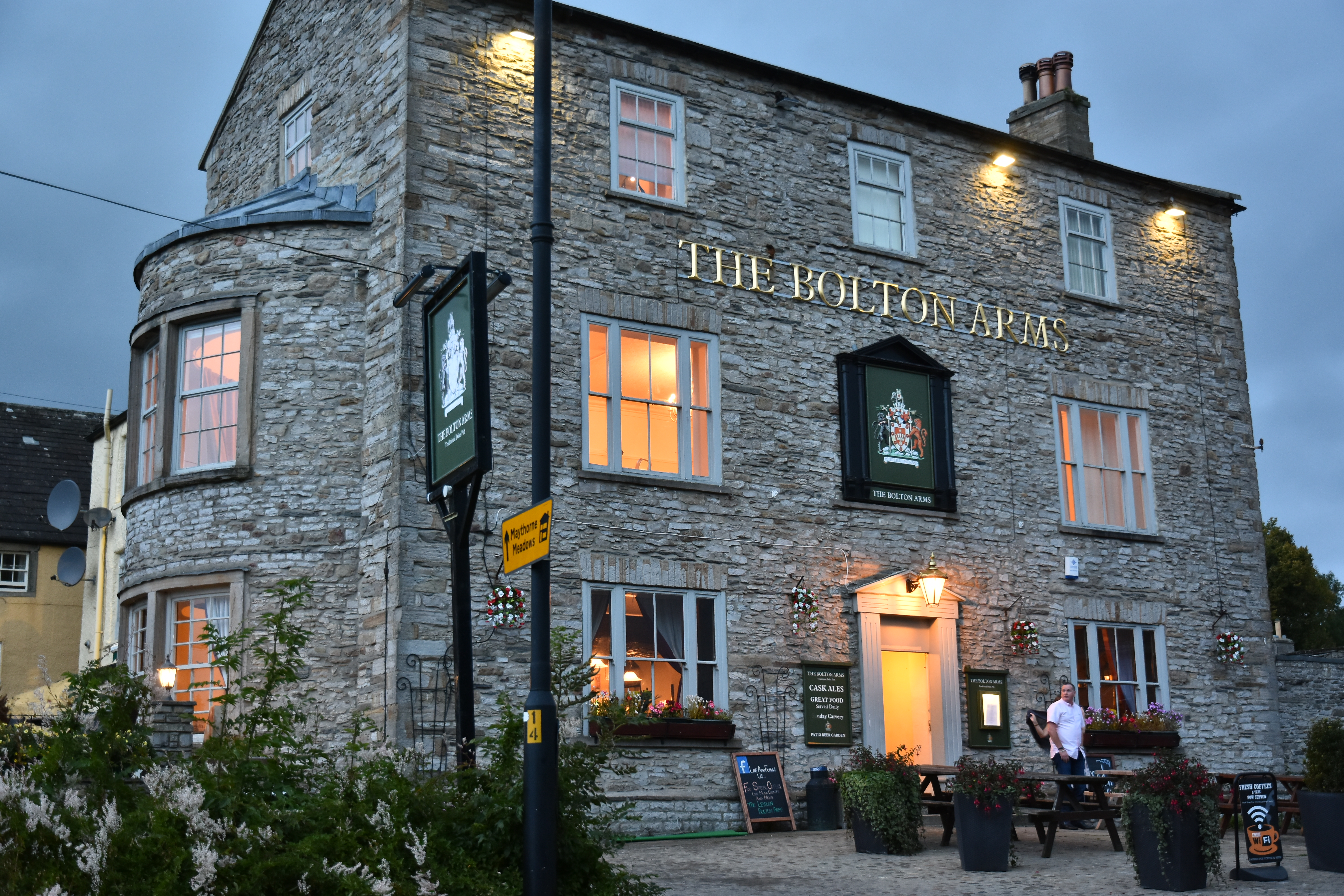 Bolton Arms Hotel Wikidata has entry Q26604703 with data related to this item.